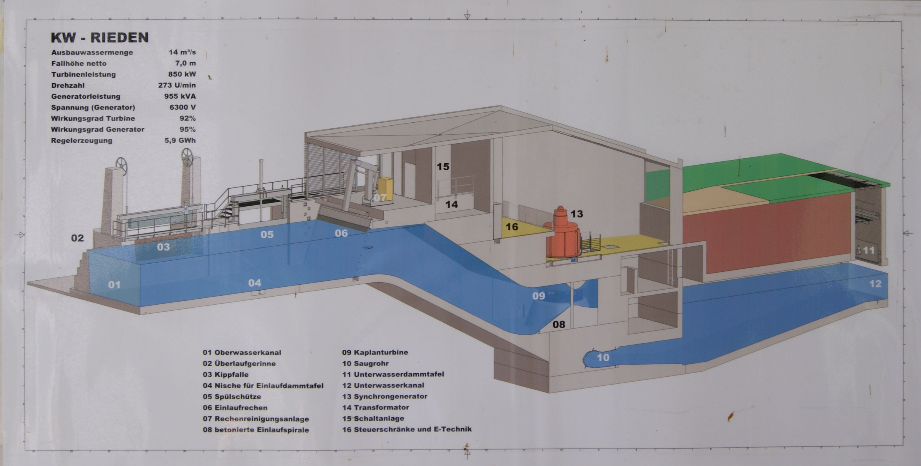 New power plant „Rieden“ of the Vorarlberger Kraftwerke AG in Bregenz, Vorarlberg, Austria. Schematic diagram of the power plant.